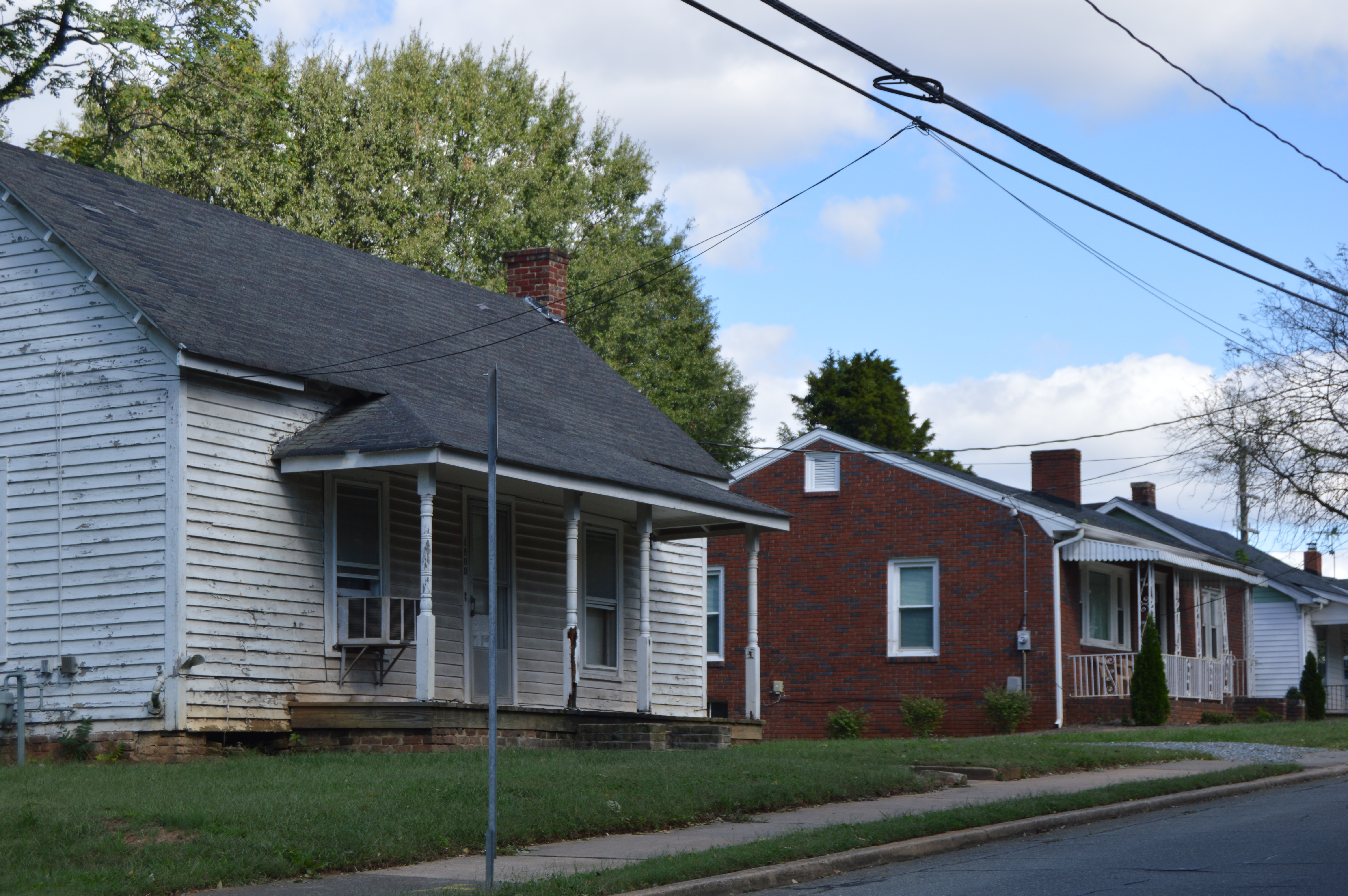 Houses on the western side of Chapel Street at the Wood Street intersection in Winston-Salem, North Carolina, United States. This block is part of the Centerville Historic District, a historic district that is listed on the National Register of Historic Places.